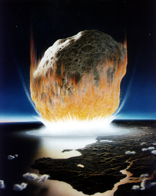 K/T extinction event theory. An artist's depiction of the asteroid impact 65 million years ago that many scientists say is the most direct cause of the dinosaurs' disappearance [1].